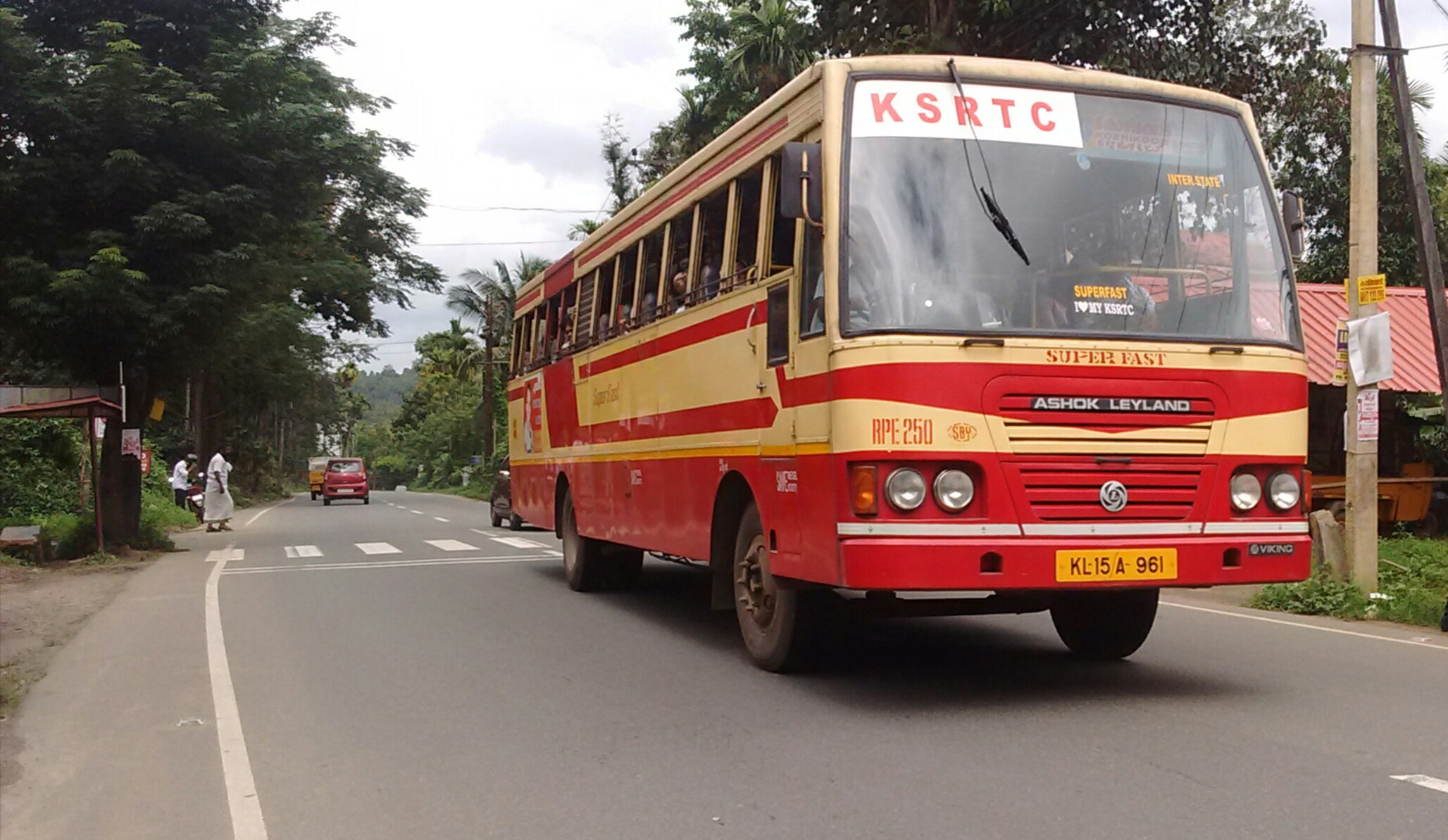 RPE 250